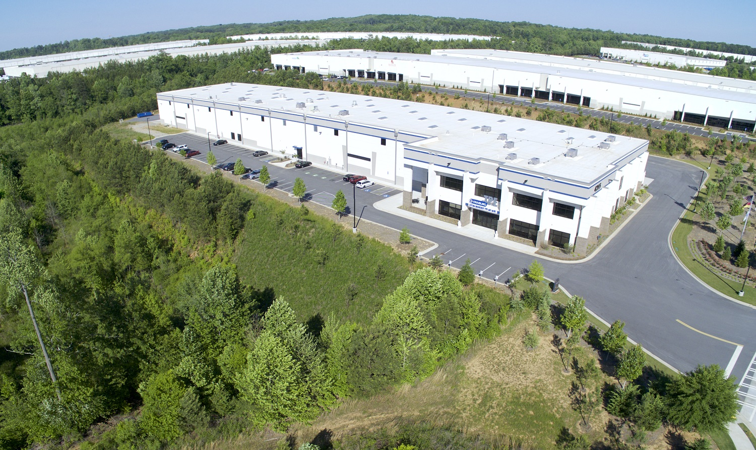 KRAIBURG TPE production site in Buford (GA), USA